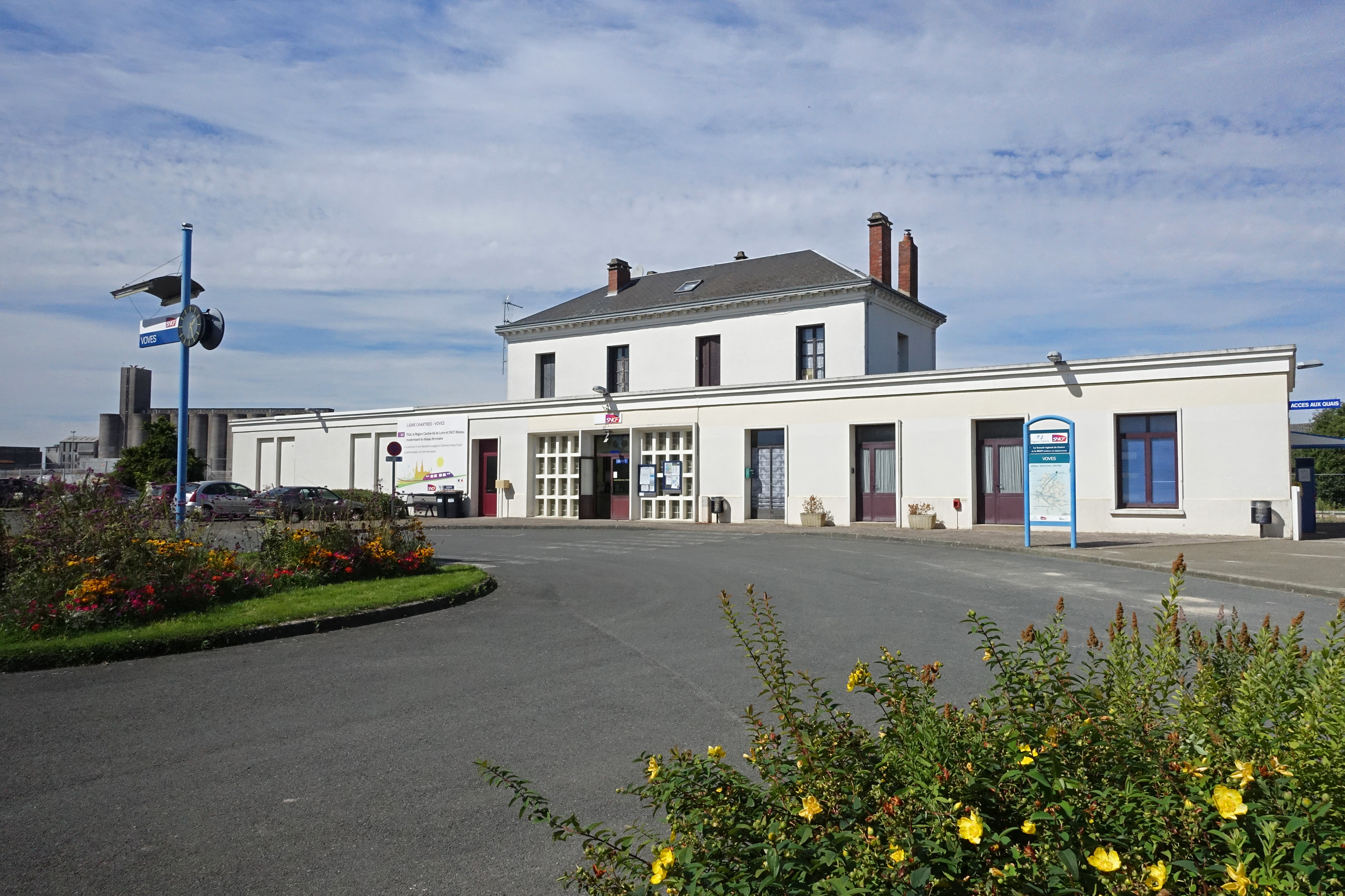 Main building of Voves station, France